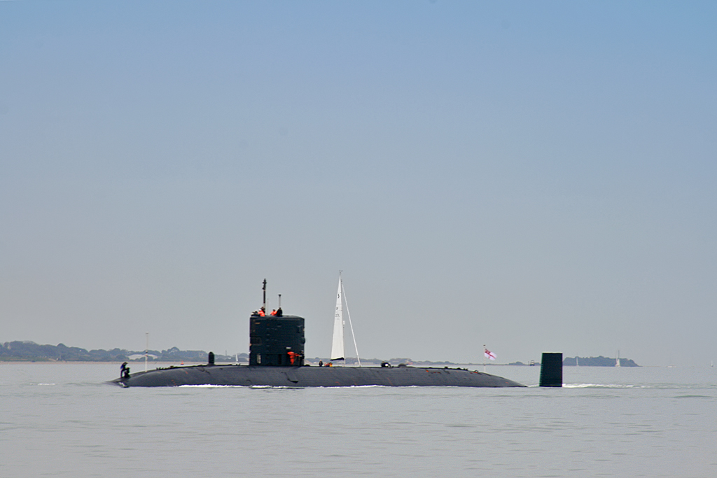 A Trafalgar class SSN (nuclear-powered hunter-killer submarine) of the Royal Navy, HMS Torbay rounding Calshot Spit, inward bound to the NATO Z Berth at Southampton Docks berth 38 for an informal visit, 13 November 2010. Image uploaded by me User:George.Hutchinson from a photograph taken by and supplied by Brian Burnell. The photograph should be attributed to Brian Burnell in this format. Wikipedia editors are reminded that the copyright remains with the photographer, and that the terms of the Creative Commons Attribution-ShareAlike 3.0 Unported Licence that allow editors to reuse this image apply to Wikipedia editors also, as they do to other reusers of this image. Breaches of the licence terms are not only unlawful, but are also antisocial, in that breaches discourage photographers from making their images freely available to everyone without payment. Non-Wikipedia users are requested to advise Brian Burnell of its use other than on Wikipedia.